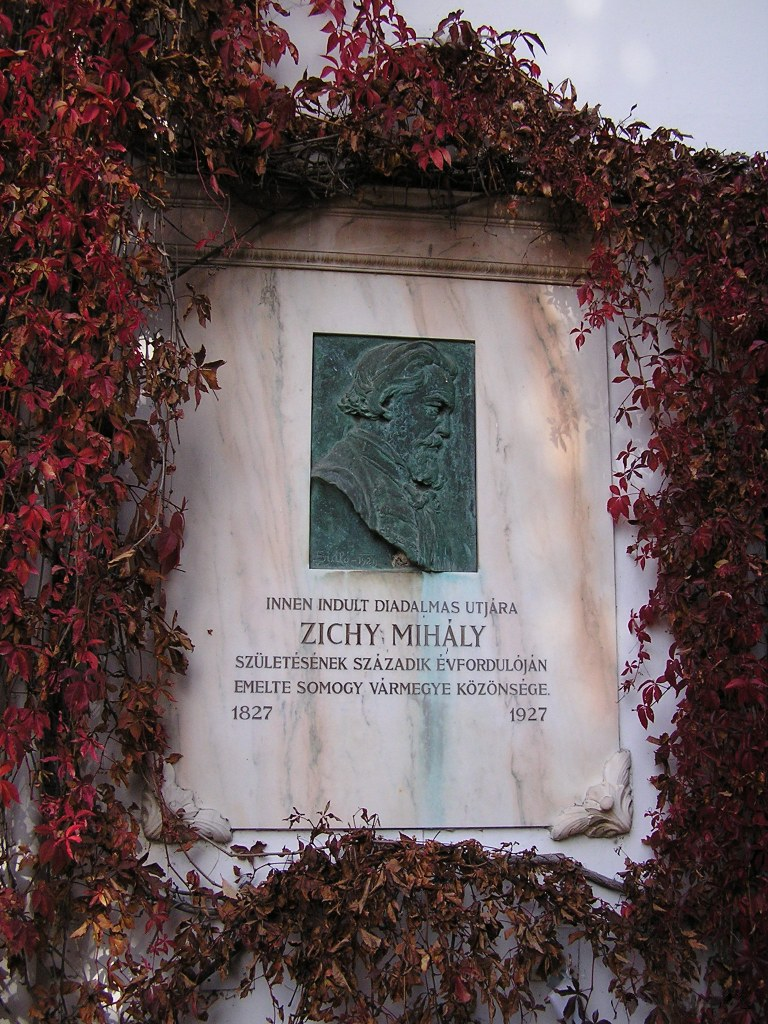 Plaque for Mihály Zichy, Zala